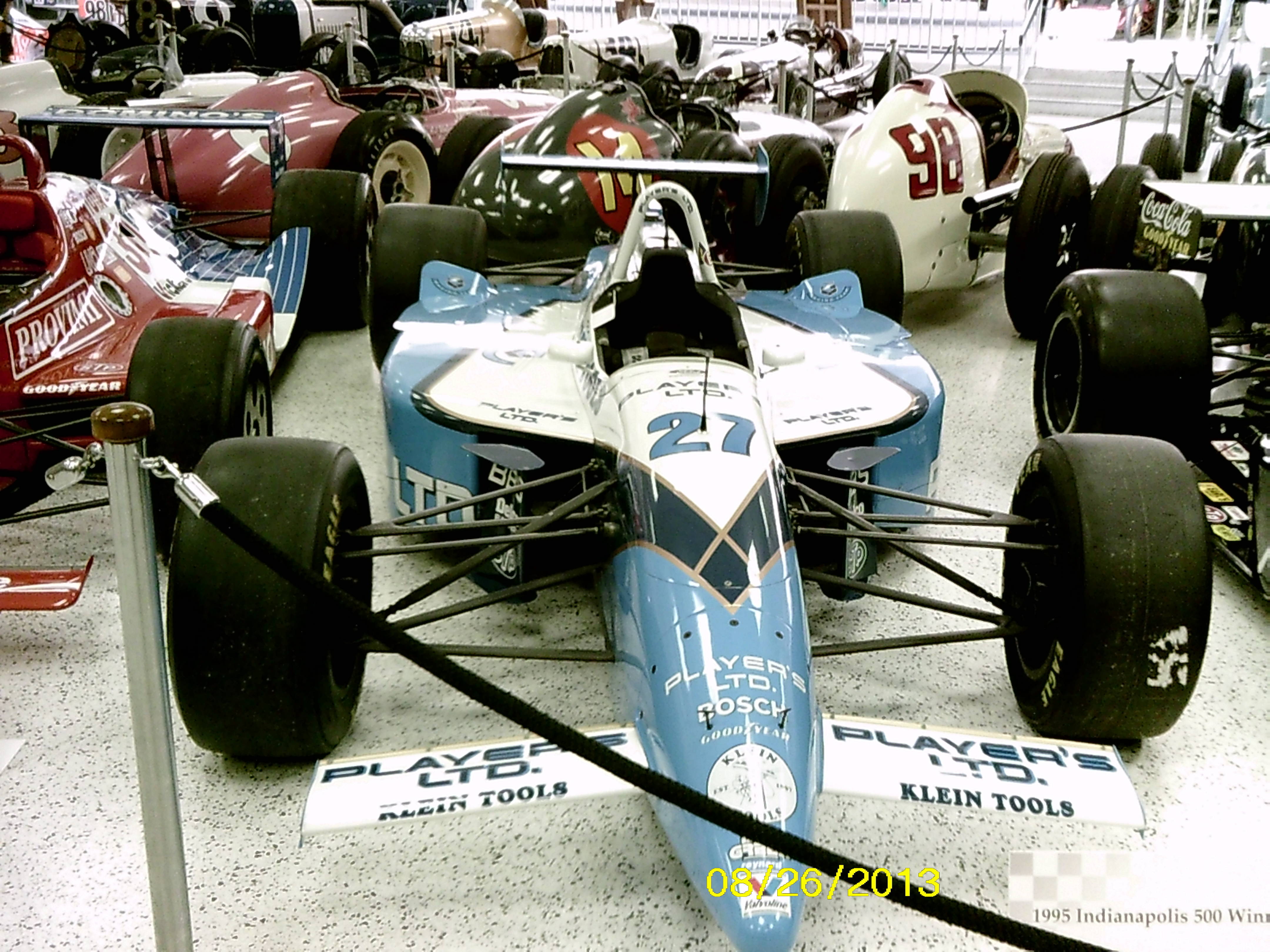 The winning car from the 1995 Indianapolis 500, driven by Jacques Villeneuve.